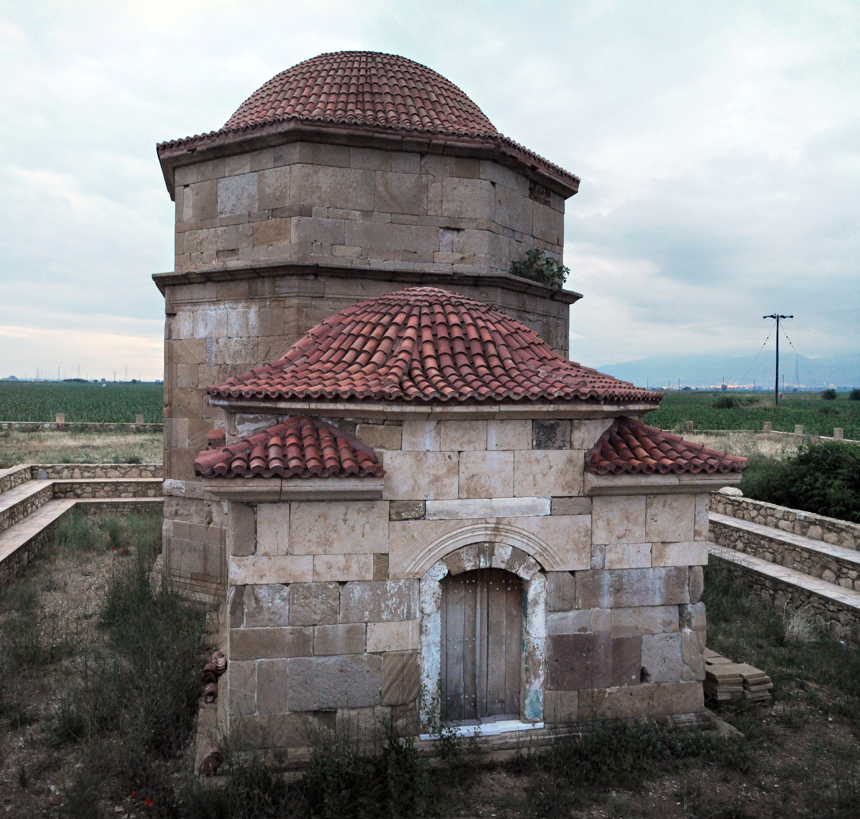 Kütüklü Baba Tekkesi (Bektashi), Selino, Rhodope, West Thrace, Greece.